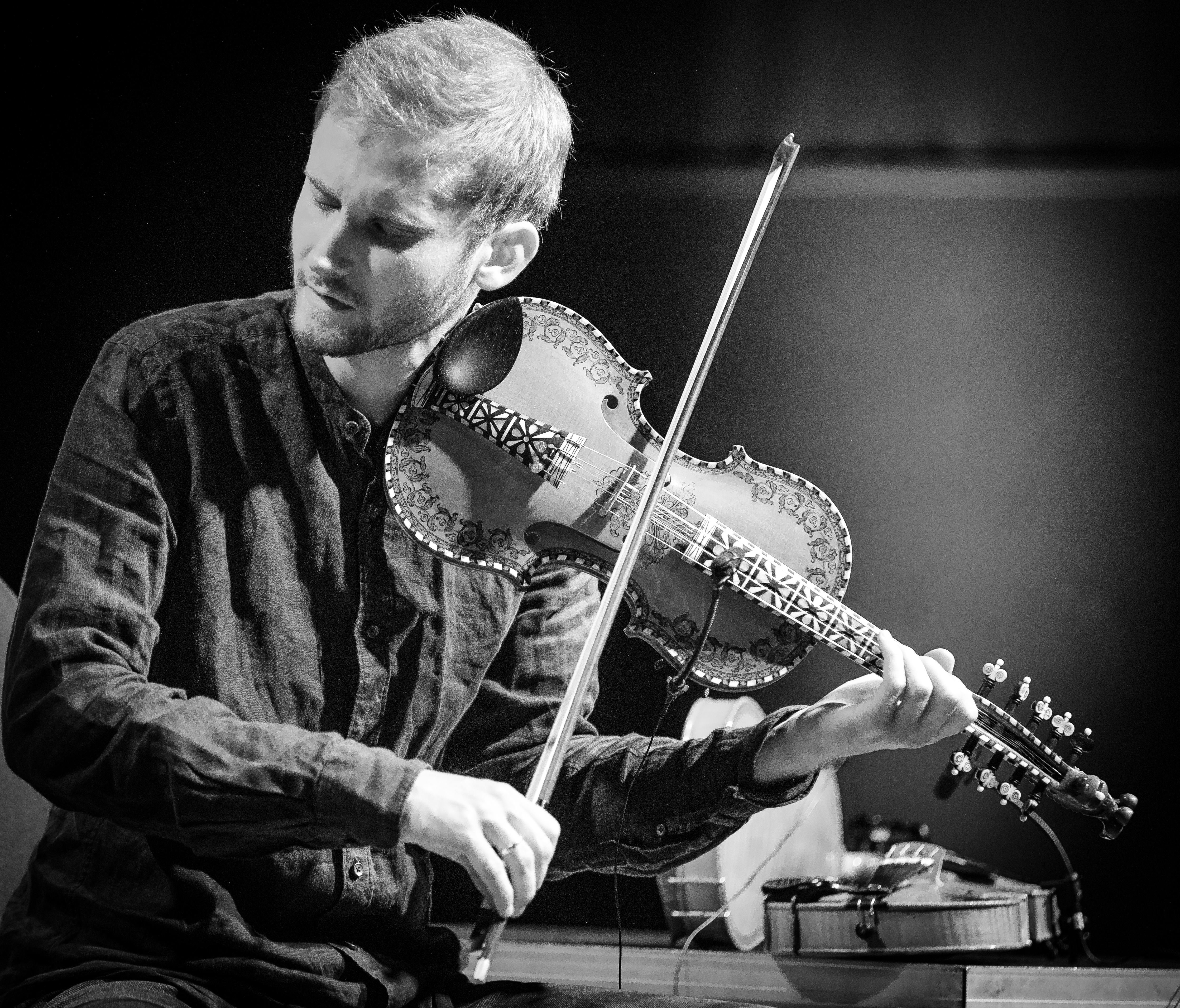 Erlend Apneseth with Erlend Apneseth Trio in Sølvsalen. The concert was part of Kongsberg Jazzfestival and took place on 05. July 2018 in Kongsberg. Lineup: Erlend Apneseth (Hardanger fiddle) Stephan Meidell (guitar) Øyvind Hegg-Lunde (drums)